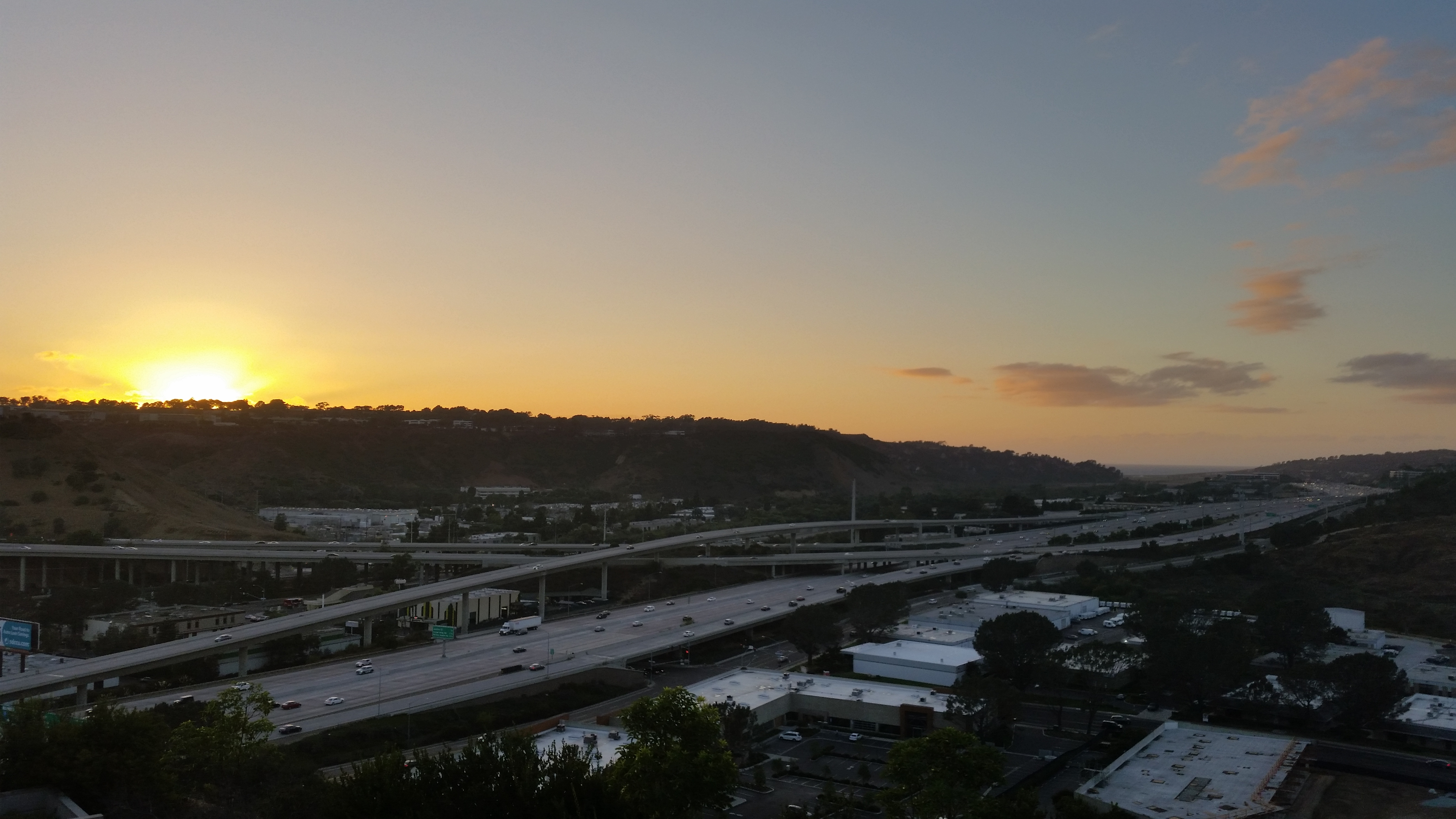 Sunset over Torrey Pines Ridge and its shadow cast upon Sorrento Valley, San Diego.